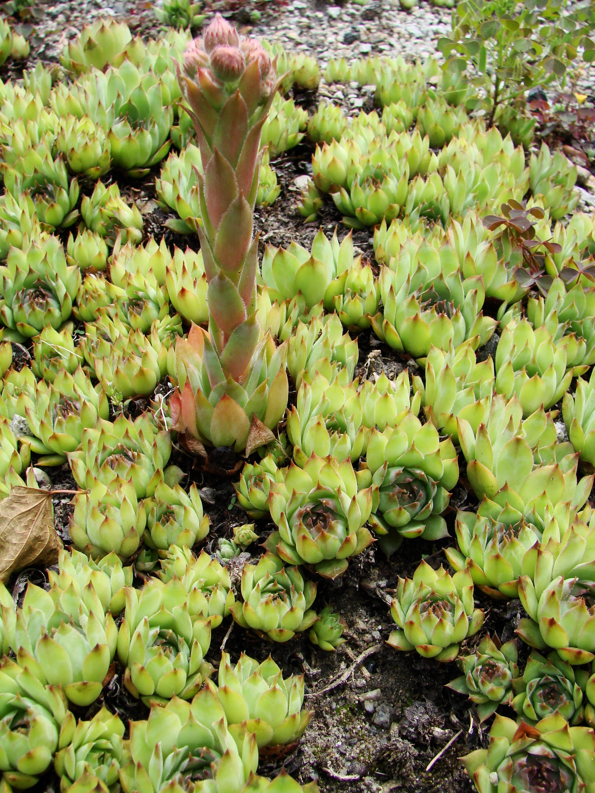 Picture taken in the university botanical garden of Wrocław (Poland): Sempervivum tectorum boutignyanum (H. Jacobsen)